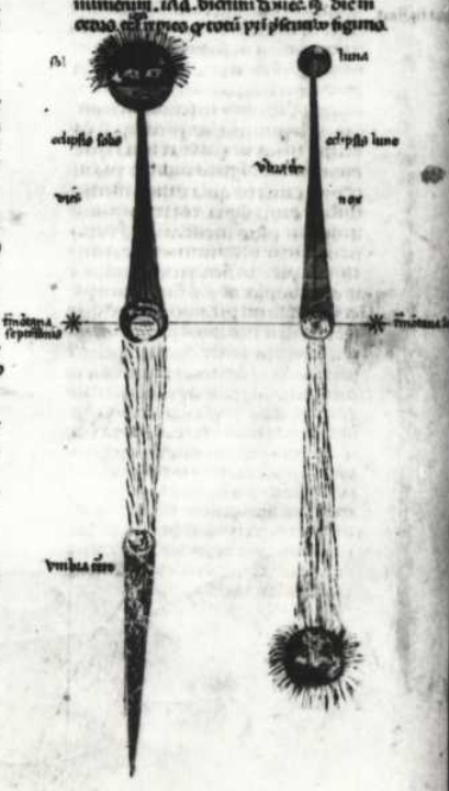 Liber introductorius. Munich, Bayerisches Staatbiblothek, clm 10268, fol. 99v.